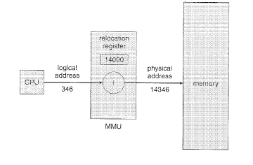 A picture about how logical address works